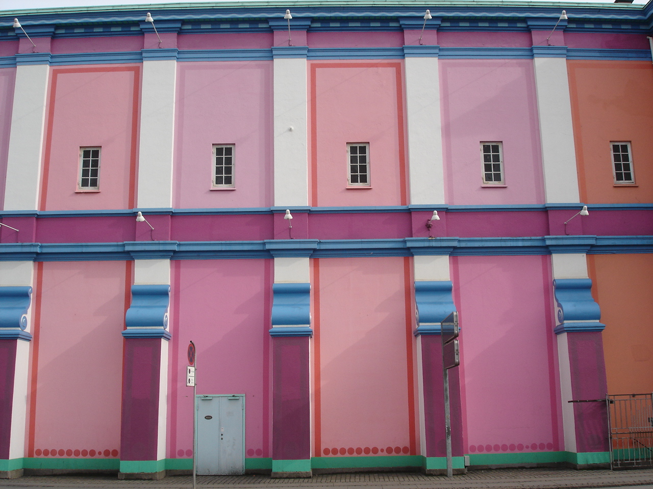 The cinema Palads in Copenhagen with ornaments by Poul Gernes